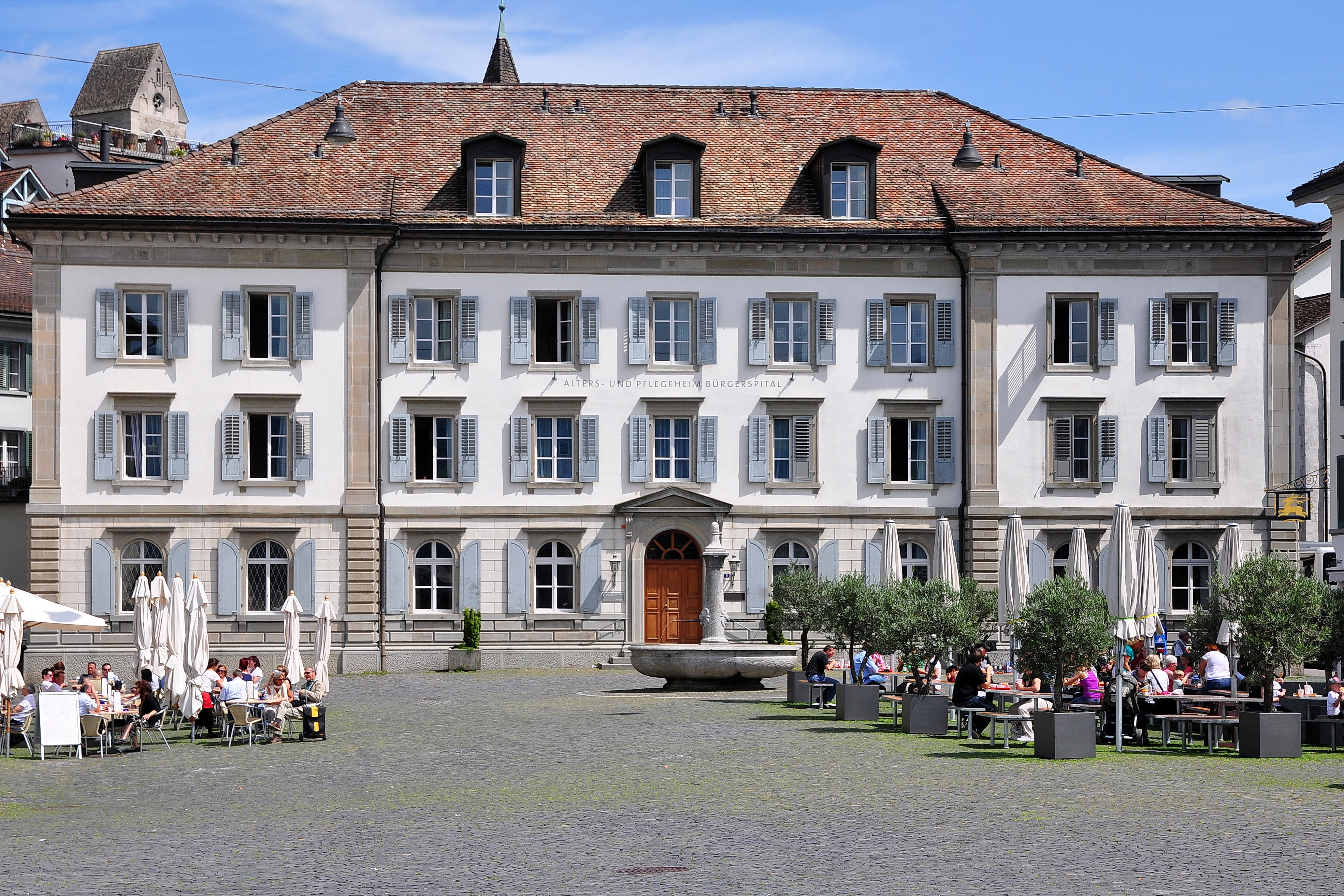 The former Heiliggeist-Spital (1845, first mentioned in the 13th century A.D.) at Fischmarktplatz in Rapperswil (Switzerland)